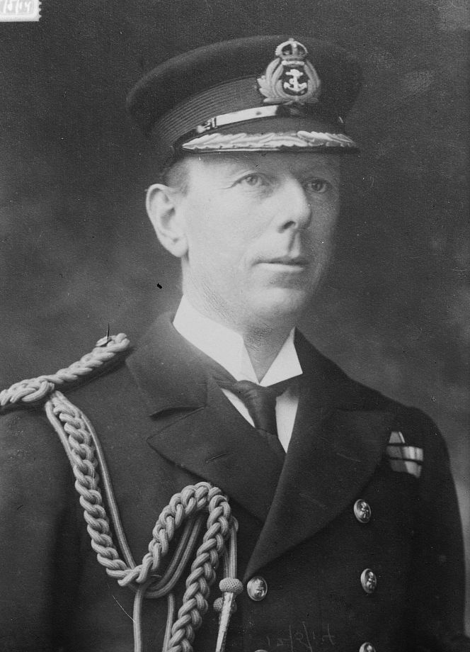 Bain News Service,, publisher. Adm. Sir S. Colville 1914 Dec. (date created or published later by Bain) 1 negative : glass ; 5 x 7 in. or smaller. Notes: Title and date from data provided by the Bain News Service on the negative. Photograph shows Admiral Sir Stanley Cecil James Colville (1861-1939) who served as an officer in the British Royal Navy during World War I. (Source: Flickr Commons project, 2011) Forms part of: George Grantham Bain Collection (Library of Congress). Format: Glass negatives. Repository: Library of Congress, Prints and Photographs Division, Washington, D.C. 20540 USA, General information about the Bain Collection is available at Higher resolution image is available (Persistent URL): Call Number: LC-B2- 3310-15